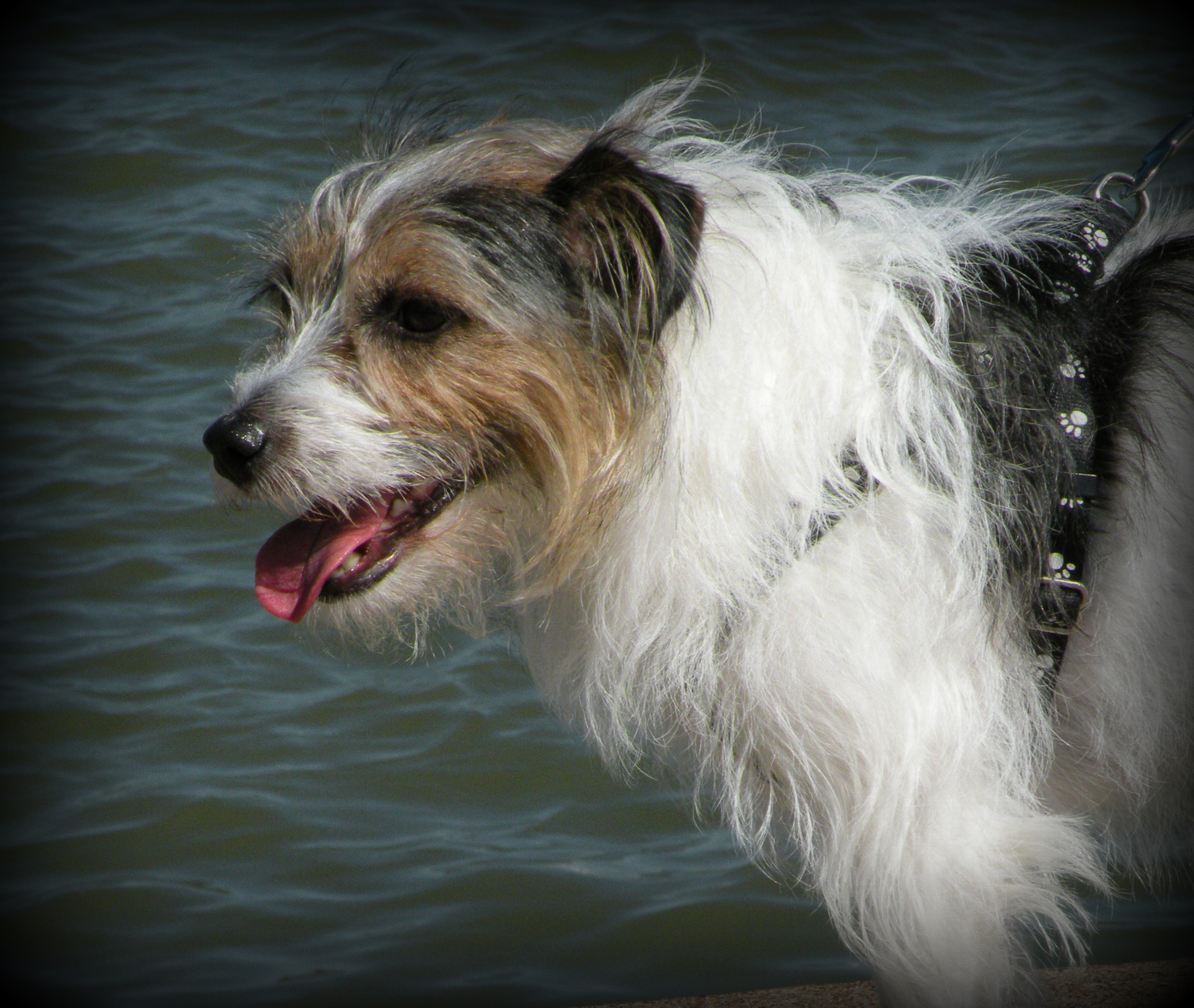 A rough coated Jack Russell Terrier taking a walk by the lake.